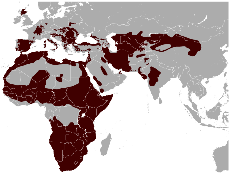 Geographical distribution of the Wild Cat Felis silvestris. The map was created using the Generic Mapping Tools, GMT, version 5.1.2.